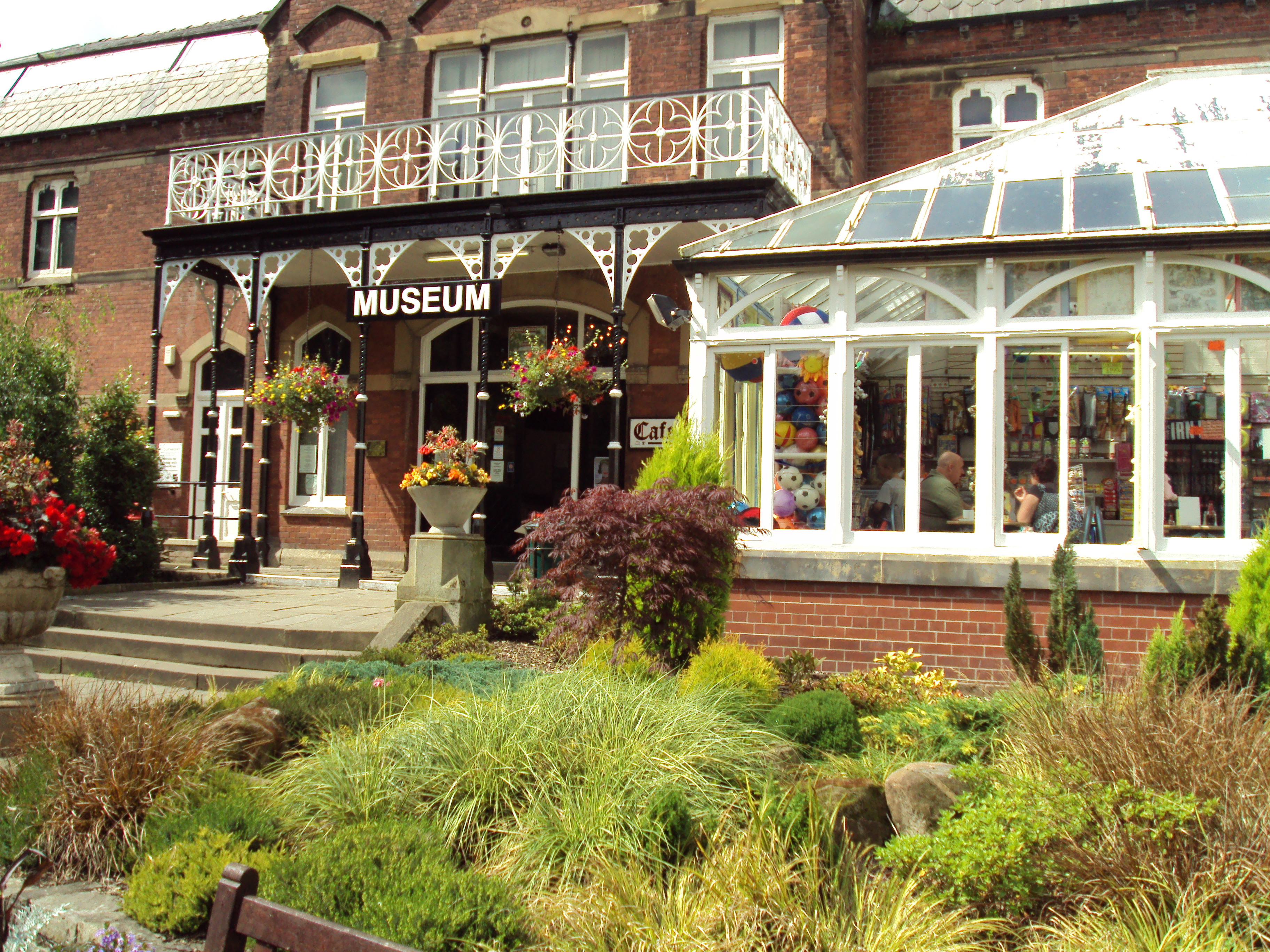 Museum at the Botanic Gardens, Churchtown, Southport, Merseyside, England.